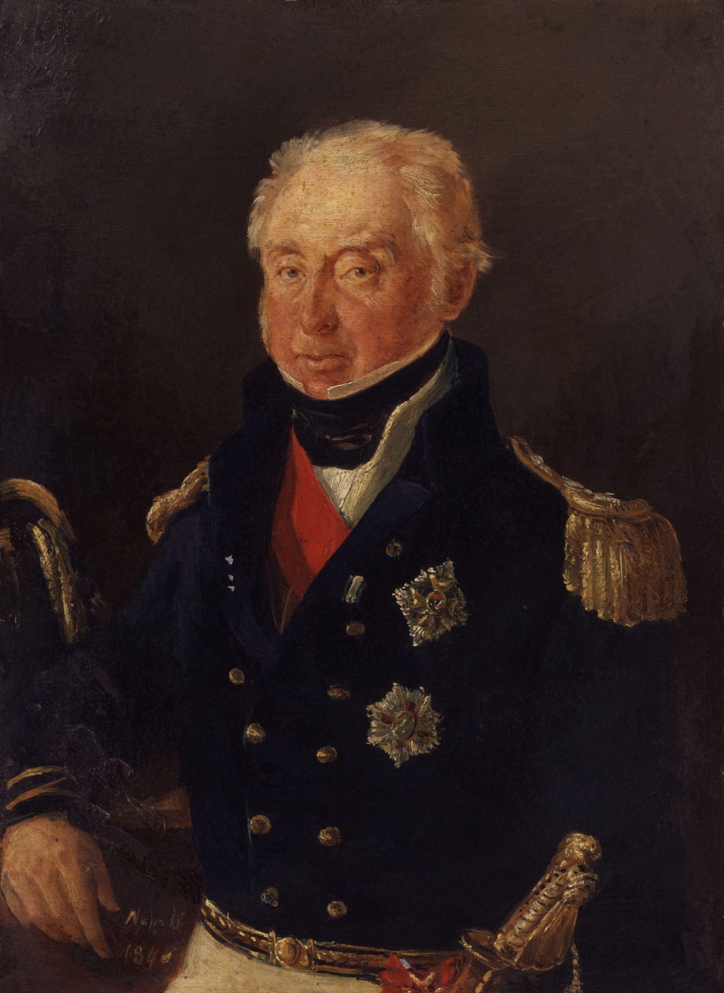 All images in this batch have an unknown author, but there is strong evidence it was first published before 1923 (based mainly on the NPG's estimated date of the work).